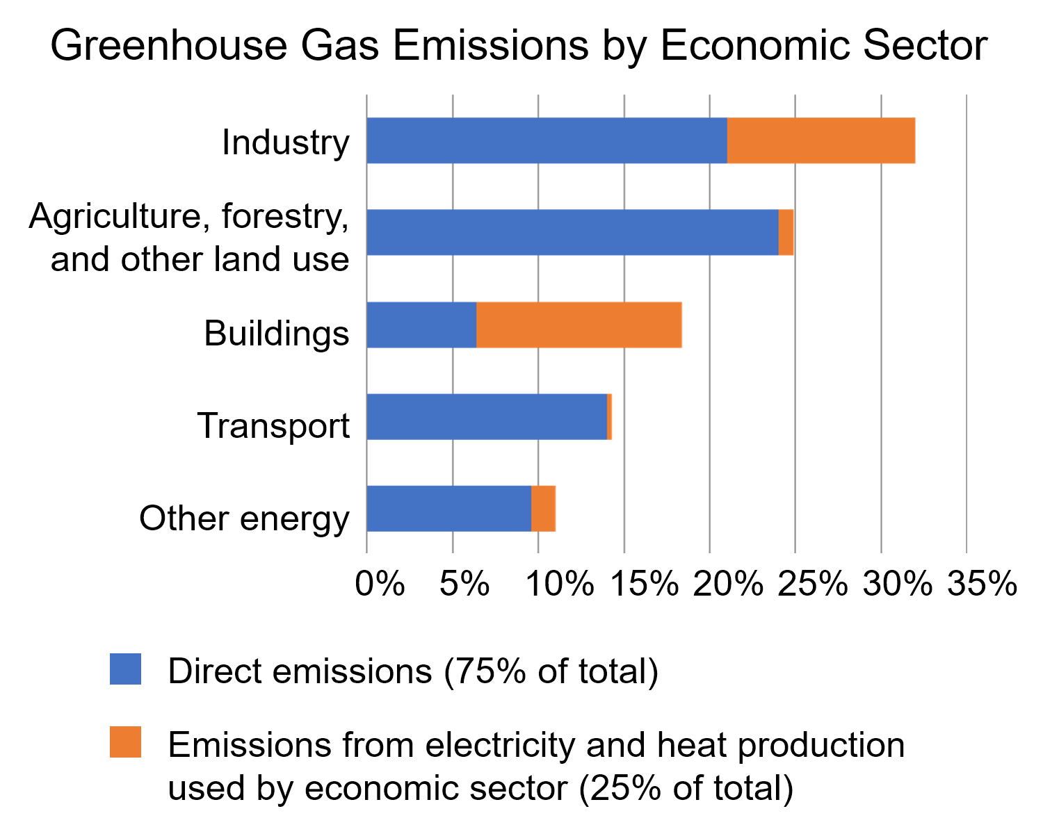 This graph shows annual greenhouse gas emissions (in 2010) attributed to different sectors. Emissions are given as a percentage share of total emissions, measured in carbon dioxide-equivalents, using global warming potentials from the Intergovernmental Panel on Climate Change's (IPCC) fifth Assessment Report. Data are tabulated in a later section. References Figure SPM.2, in: Summary for Policymakers (archived 29 June 2014), p.7, in: IPCC AR5 WG3; Edenhofer, O., et al., ed. (2014). Climate Change 2014: Mitigation of Climate Change. Contribution of Working Group III (WG3) to the Fifth Assessment Report (AR5) of the Intergovernmental Panel on Climate Change (IPCC). Cambridge University Press.. Archived 29 June 2014.